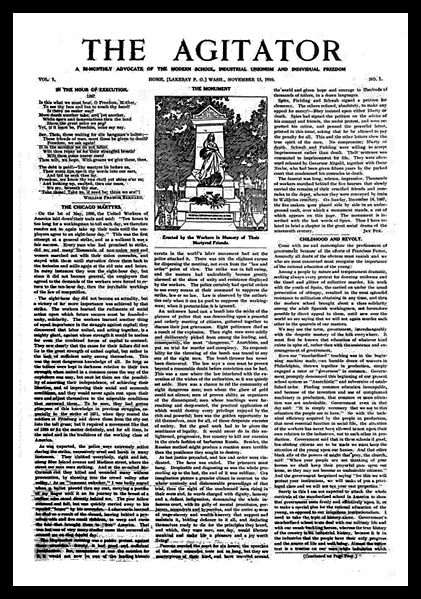 The Agitator was a radical newspaper published by Jay Fox of the anarchist Home Colony in the American state of Washington from 1910 to 1912.